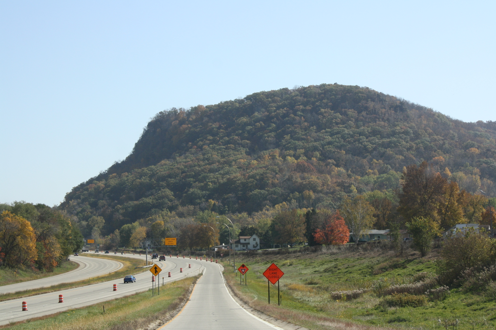 Looking south at Dakota, Minnesota while traveling on an on ramp to Interstate 90.